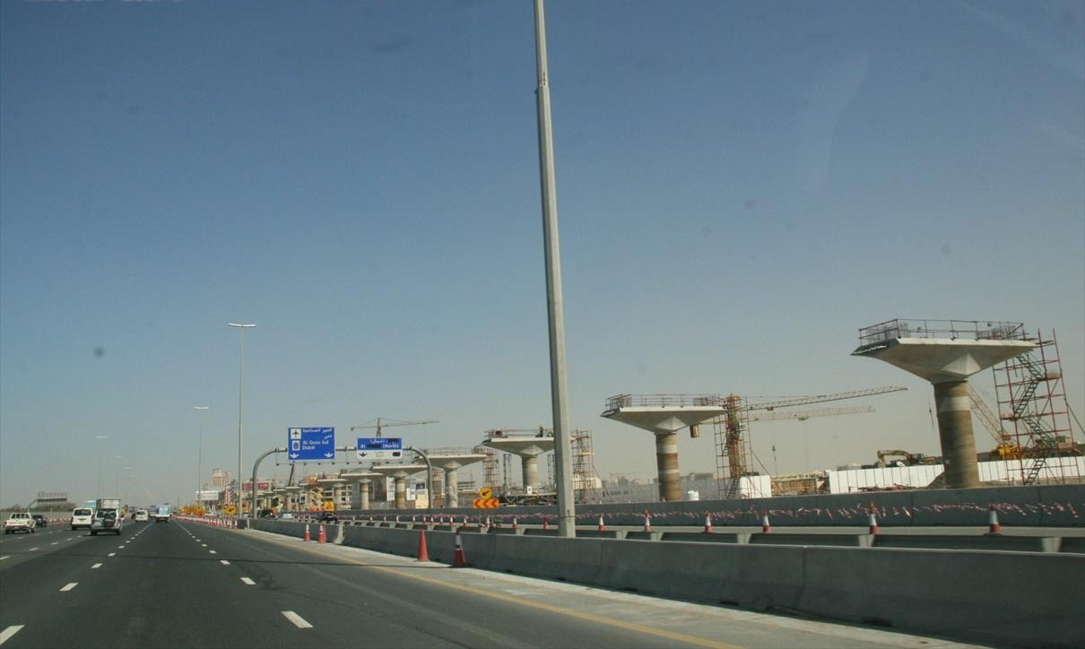 This is a photo showing the construction of Dubai Metro's Red Line near Al Barsha along Sheikh Zayed Road in Dubai, United Arab Emirates on 24 January 2007.